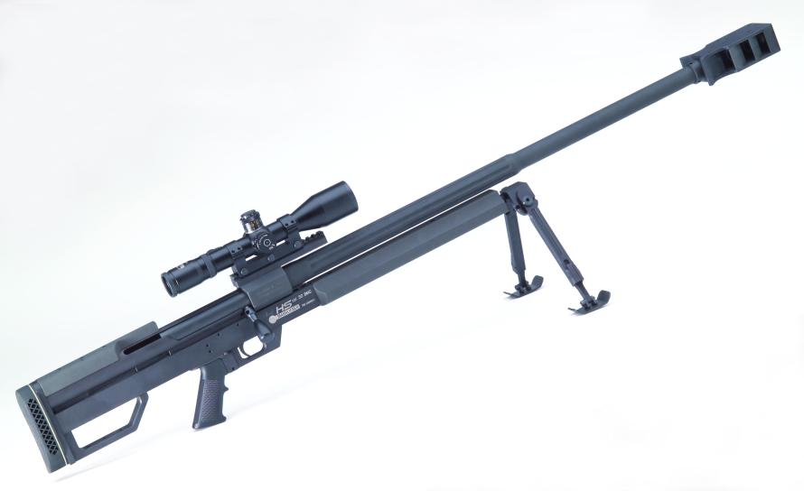 A Steyr HS .50 seen from the right side with a scope.